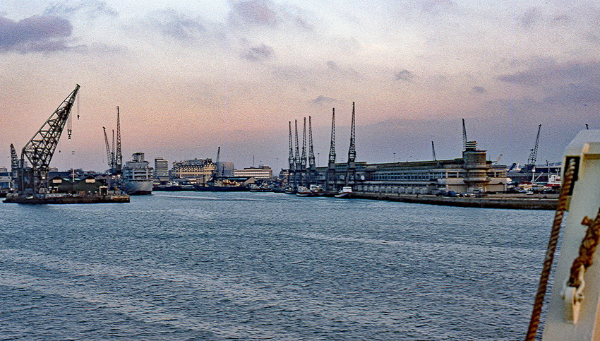 The Ocean Dock with the art deco Ocean Liner teminal at Southampton, demolished in 1983. Scanned from a Kodachrome 35mm slide.